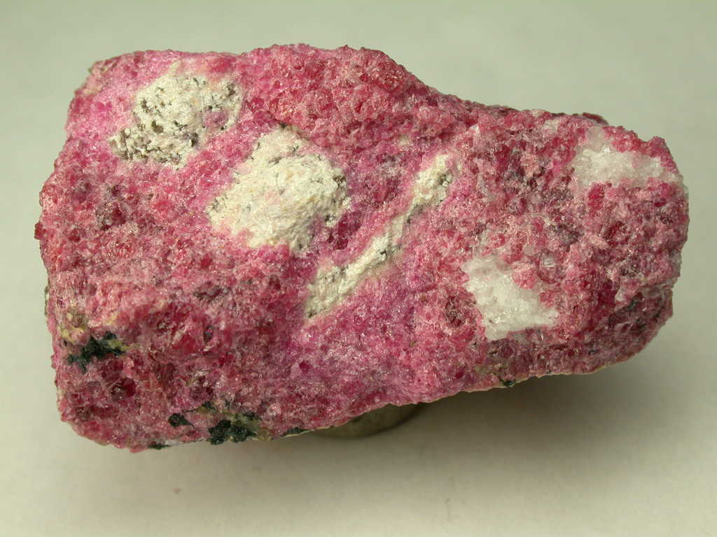 Eudialyte, Gittinsite, Vlasovite Locality: Kipawa alkaline complex, Les Lacs-du-Témiscamingue, Témiscamingue RCM, Abitibi-Témiscamingue, Québec, Canada Description: A 4.1 by 3.1 cms mass of pink Eudialite with whitish Gittinsite on the surface of two included Vlasovite crystals on the upper left. JSS specimen and photo.